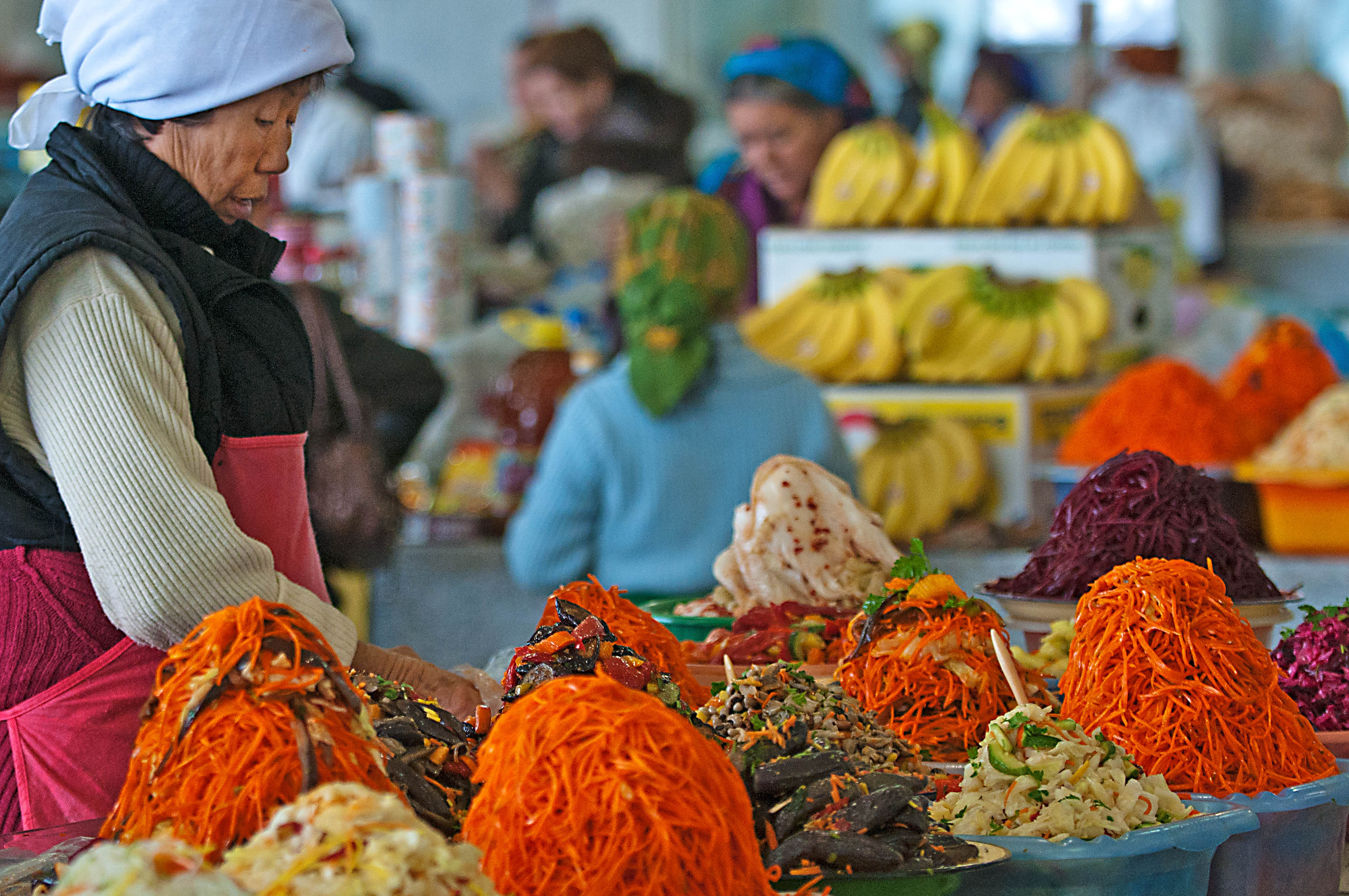 A quick shopping trip; we didn't buy any camels, just a few hats